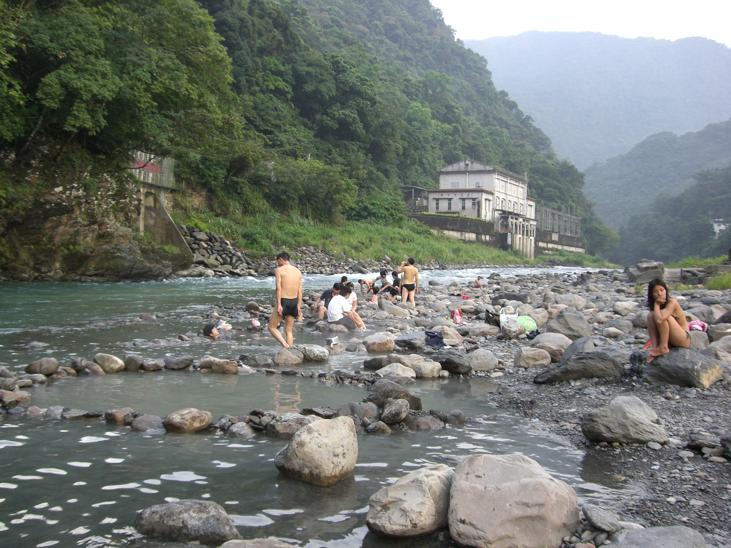 River hot spring